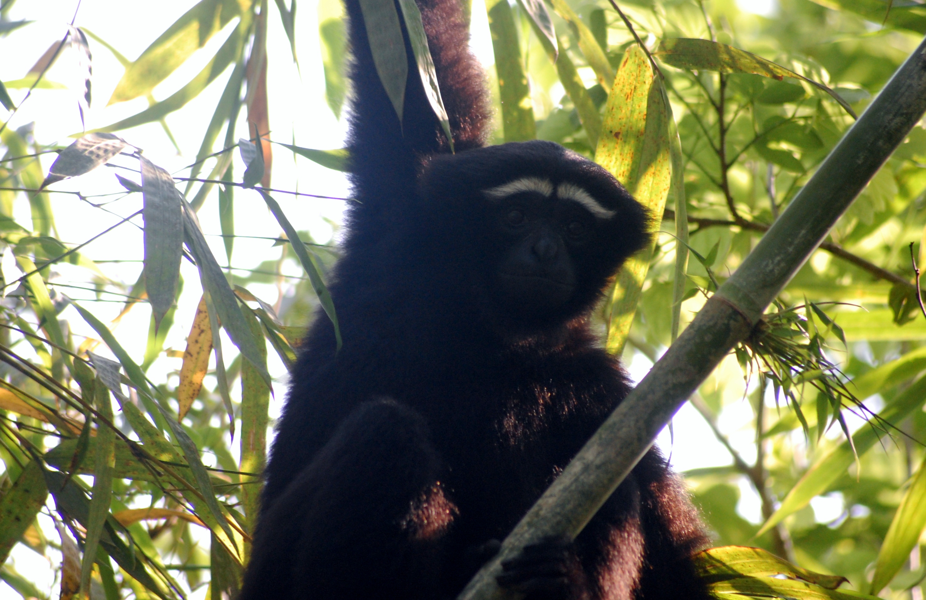 Gibbon Hoolock de l'ouest mâle.